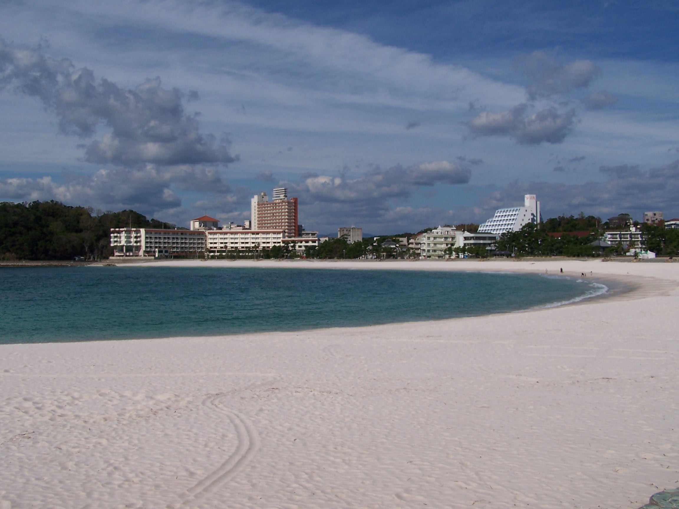 Shiraha beach at Shirahama, Wakayama-ken, Japan. October 6, 2004. David Turner.